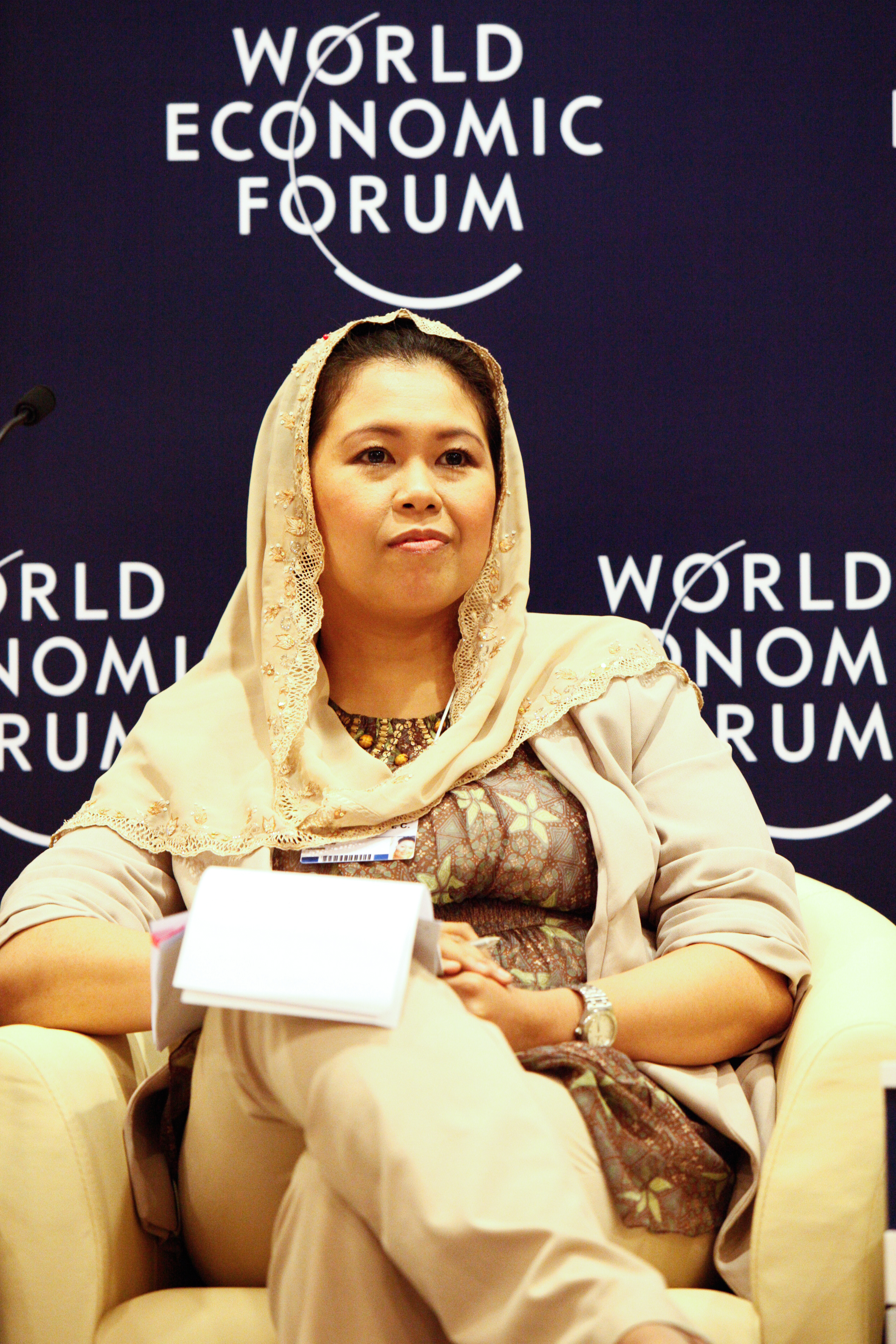 JAKARTA/INDONESIA, 12JUN11 - Yenny Zannuba A. C. Wahid, Director, Wahid Institute, Indonesia, captured during the World Economic Forum on East Asia in Jakarta, Indonesia, June 12, 2011. Copyright World Economic Forum ( by Sikarin Thanachaiary